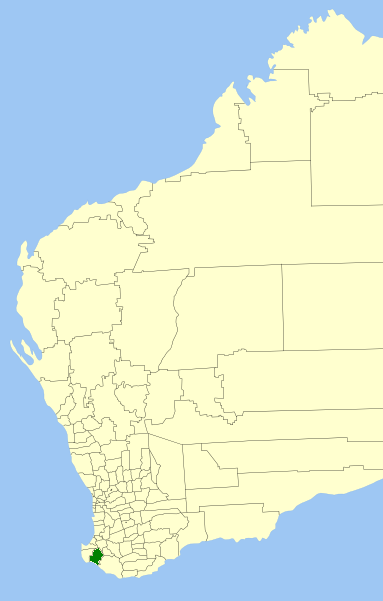 Description=Location of the Local Government Area in Western Australia